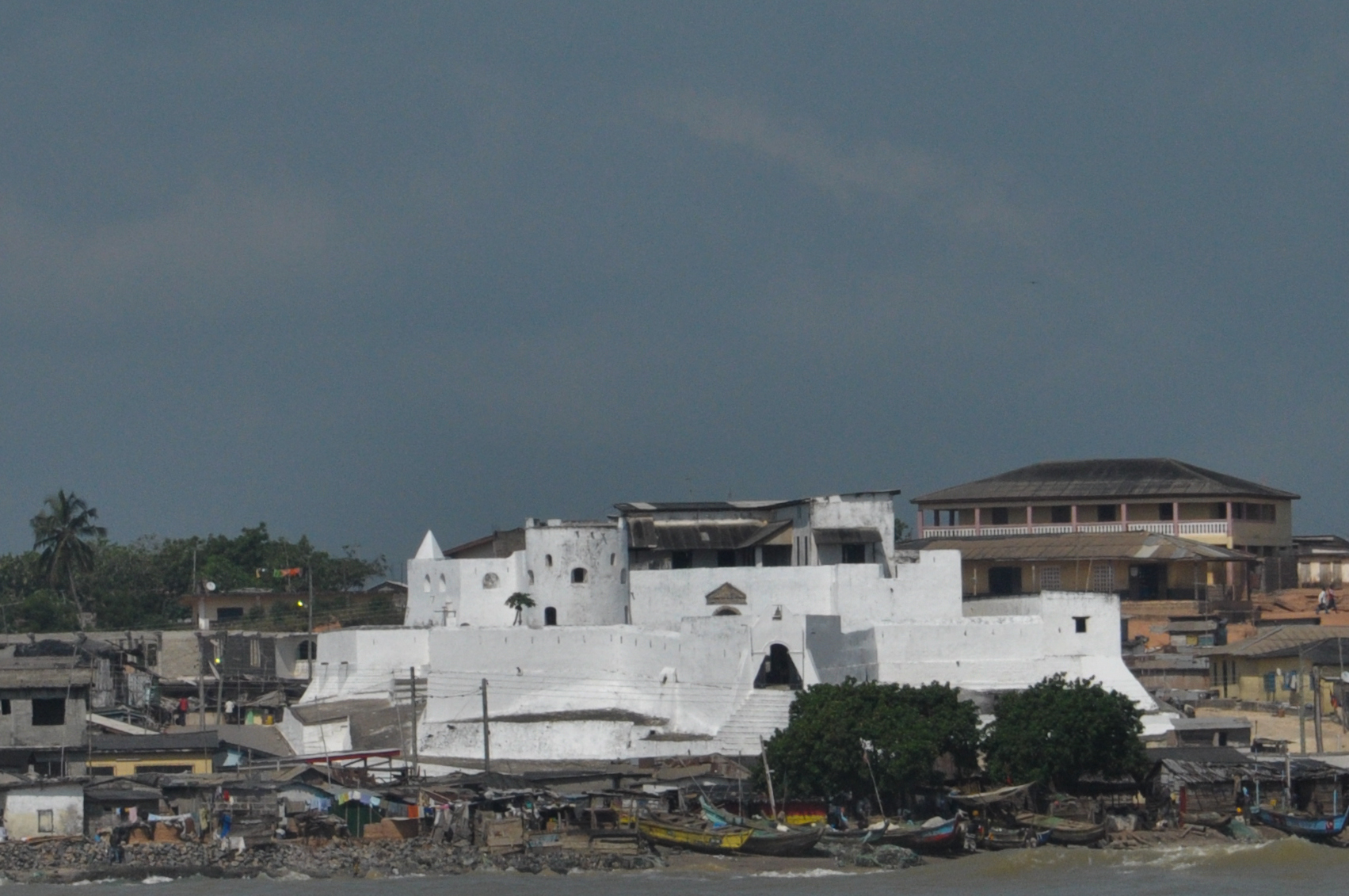 Fort St. Sebastian from a boat, while getting close to the shore